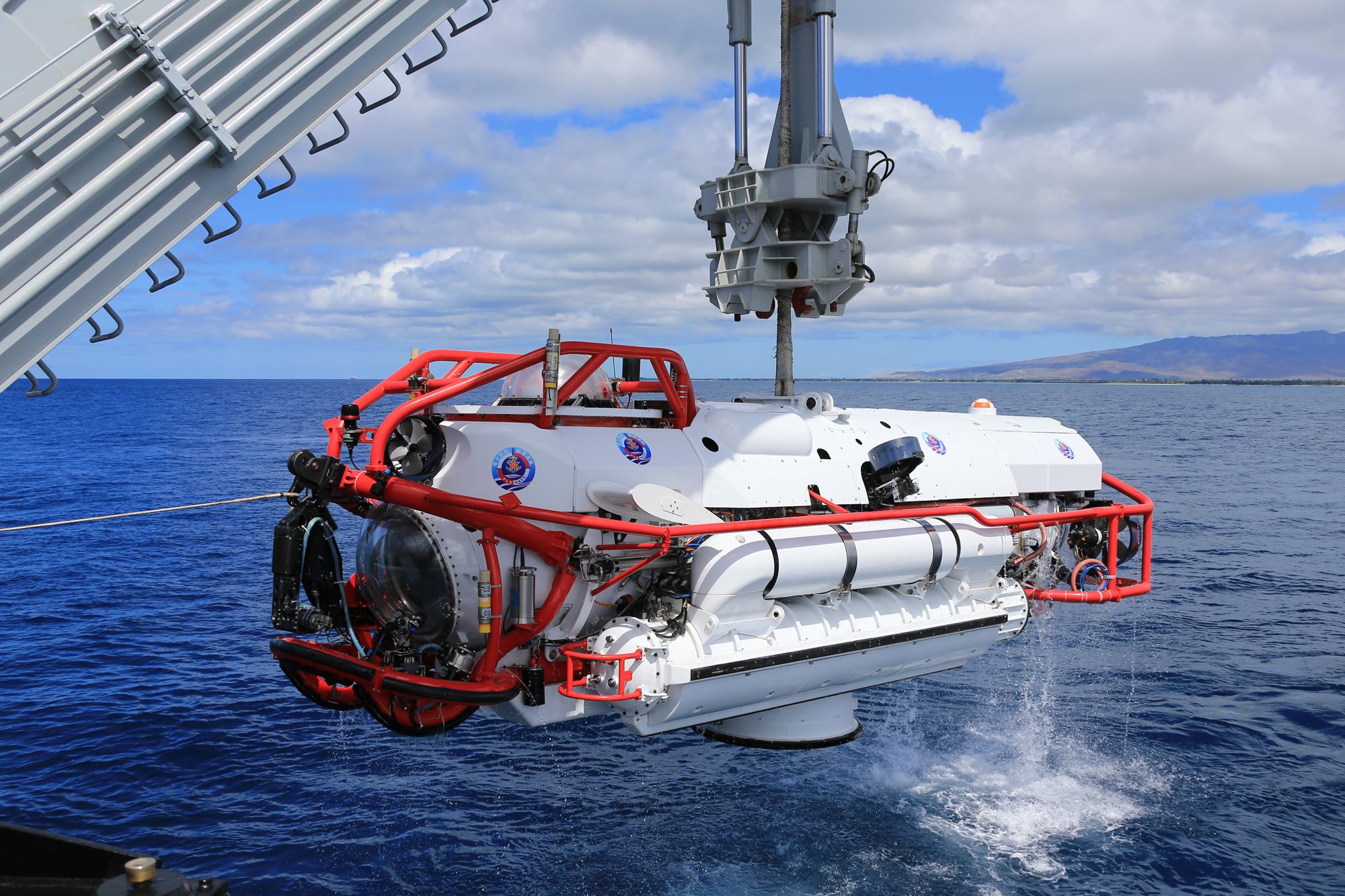 160713-N-GW536-005 PACIFIC OCEAN 160713-N-GW536-005 PACIFIC OCEAN The Chinese navy submarine rescue ship Changdao retrieves an LR-7 submersible undersea rescue vehicle off the coast of Hawaii after a successful mating evolution between the LR-7 and a U.S. faux-NATO rescue seat laid by USNS Safeguard, during Rim of the Pacific 2016. The evolution was the final event and practical portion of a multinational submarine rescue exercise between seven countries. Twenty-six nations, more than 40 ships and submarines, more than 200 aircraft and 25,000 personnel are participating in RIMPAC from June 30 to Aug. 4, in and around the Hawaiian Islands and Southern California. The world's largest international maritime exercise, RIMPAC provides a unique training opportunity that helps participants foster and sustain the cooperative relationships that are critical to ensuring the safety of sea lanes and security on the world's oceans. RIMPAC 2016 is the 25th exercise in the series that began in 1971.. Unit: Commander, U.S. 3rd Fleet DVIDS Tags: NATO; rescue; china; Navy; submarine; US Navy; safeguard; RIMPAC